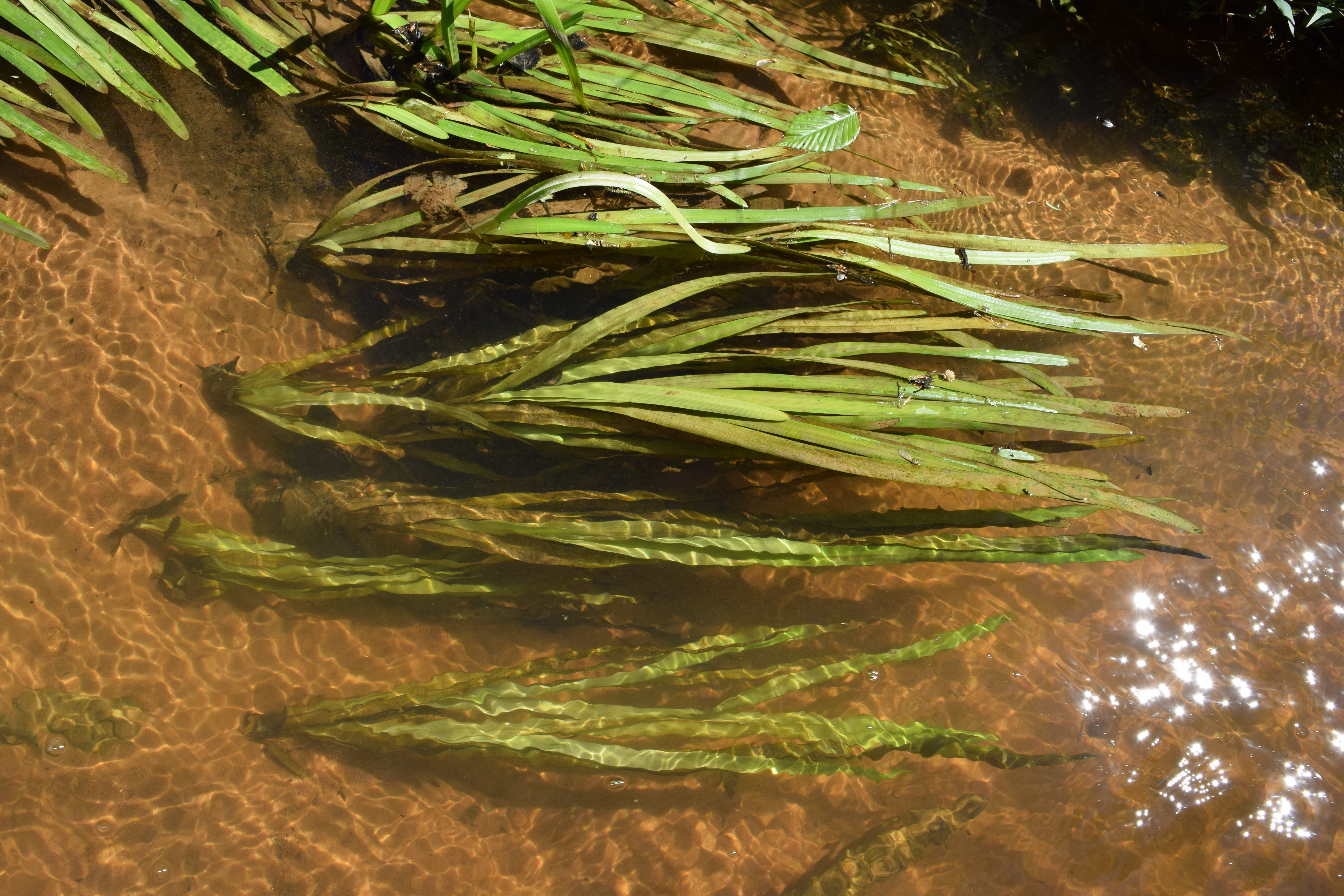 Sparganium growing in Bay Springs Branch at the University of Mississippi Field Station